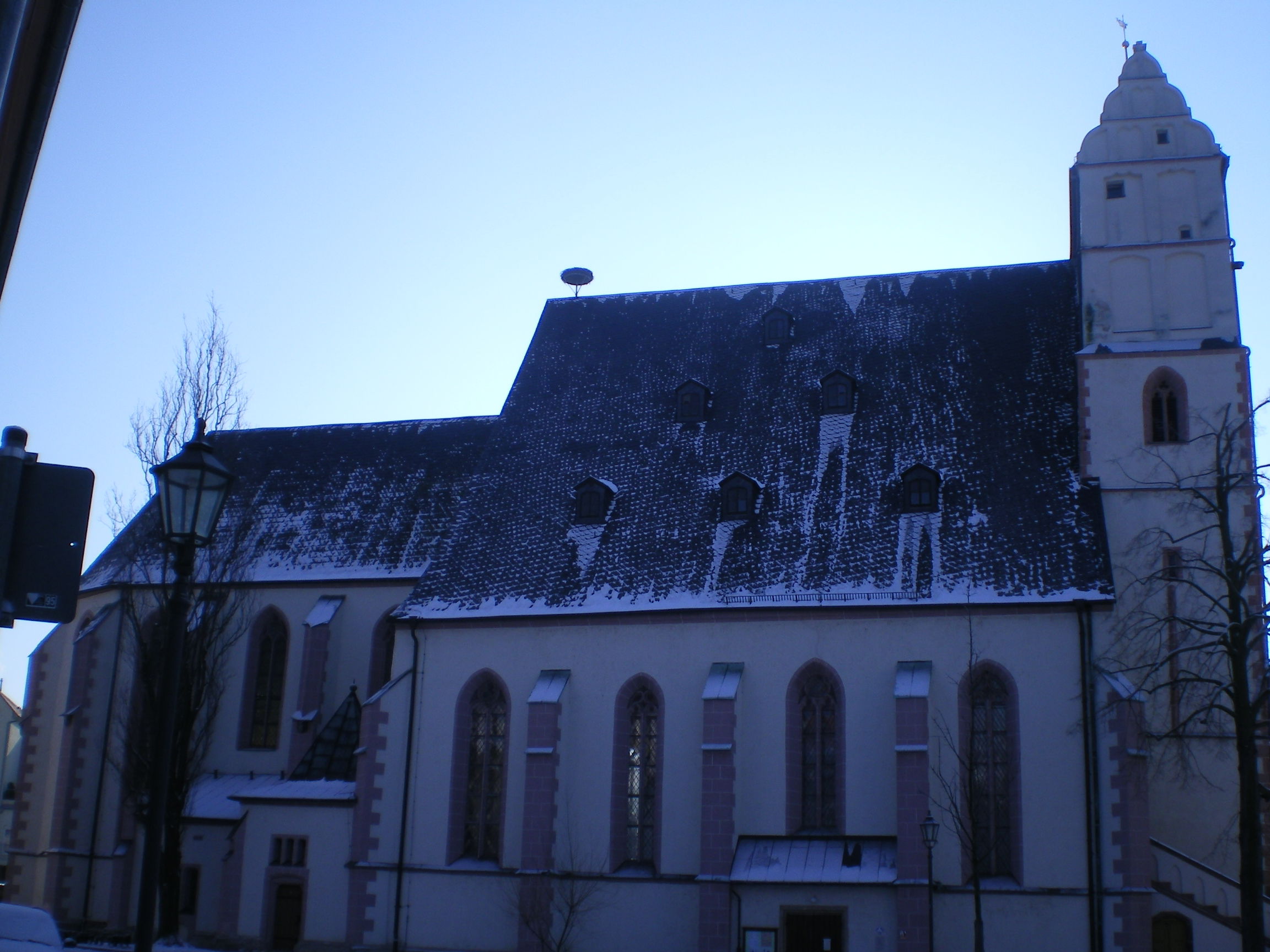 Main church (Saint Mary) of Borna near Leipzig/Saxony